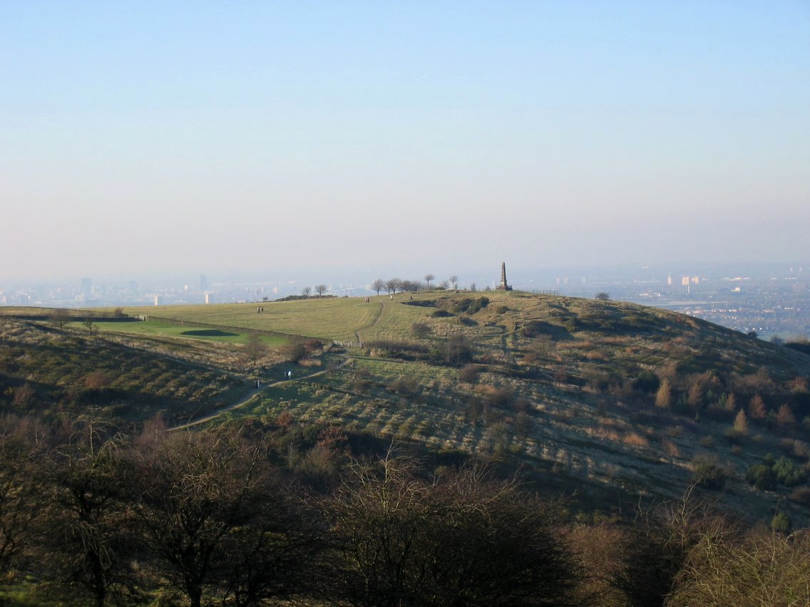 Werneth Low near Hyde, Greater Manchester, on a hazy January day. The Manchester conurbation is in the background.